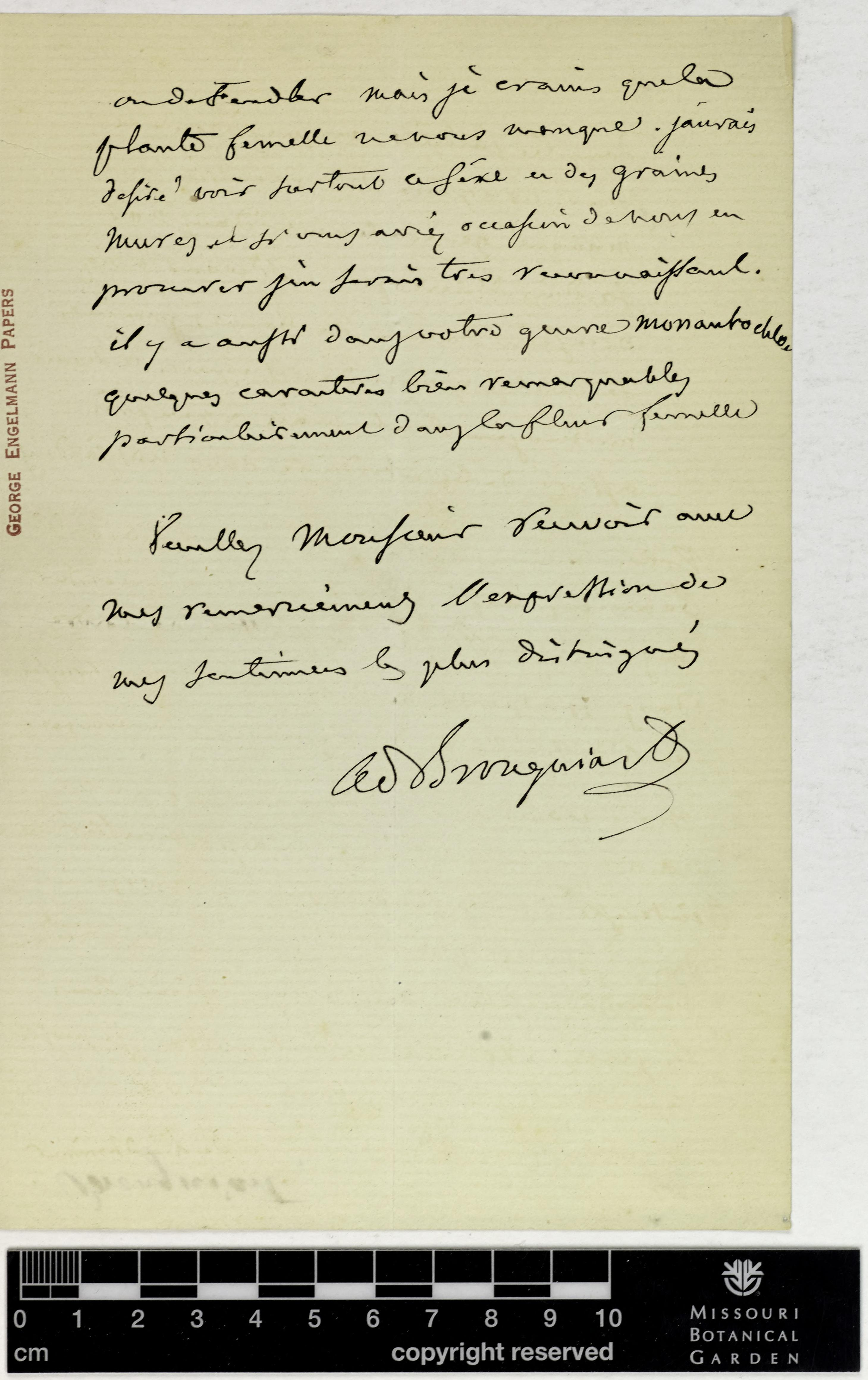 Correspondence : Brongniart (Adolphe) and Engelmann (George), 1860.